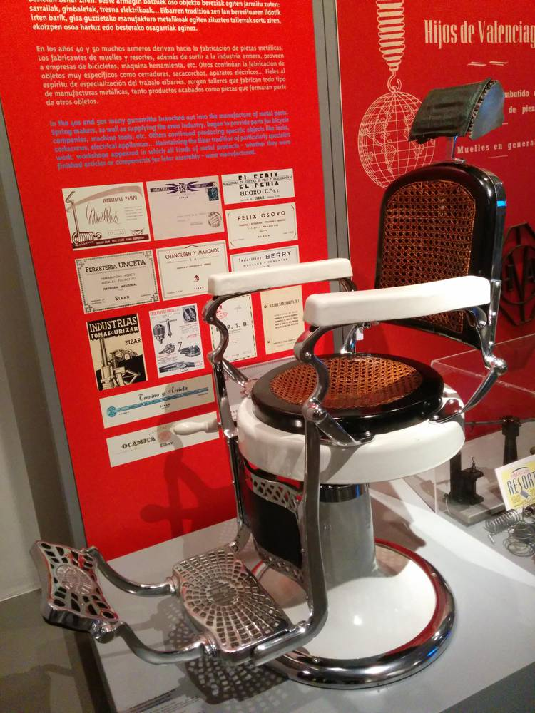 Barber seat, model or brand Jaso, made by Daniel Acha industries of Eibar